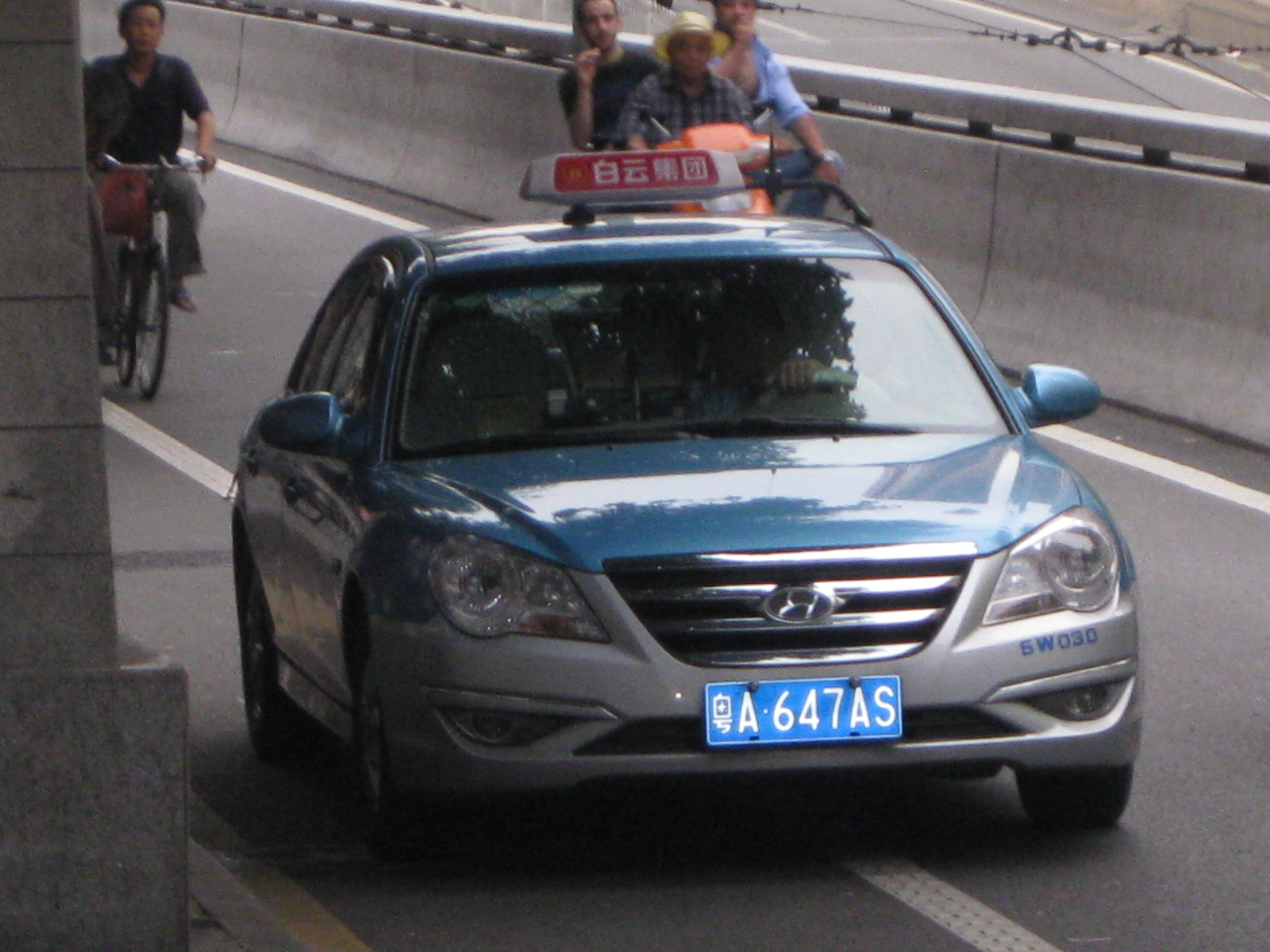 Taxi in Guangzhou having a blue colour, owned by Guangzhou Baiyun Taxi Group CO.,LTD